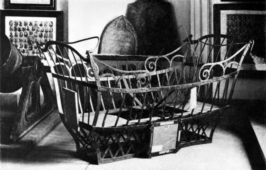 Photograph of the iron basket Charles Ellet Jr. used to help construct the suspension footbridge over the Niagara River in 1848